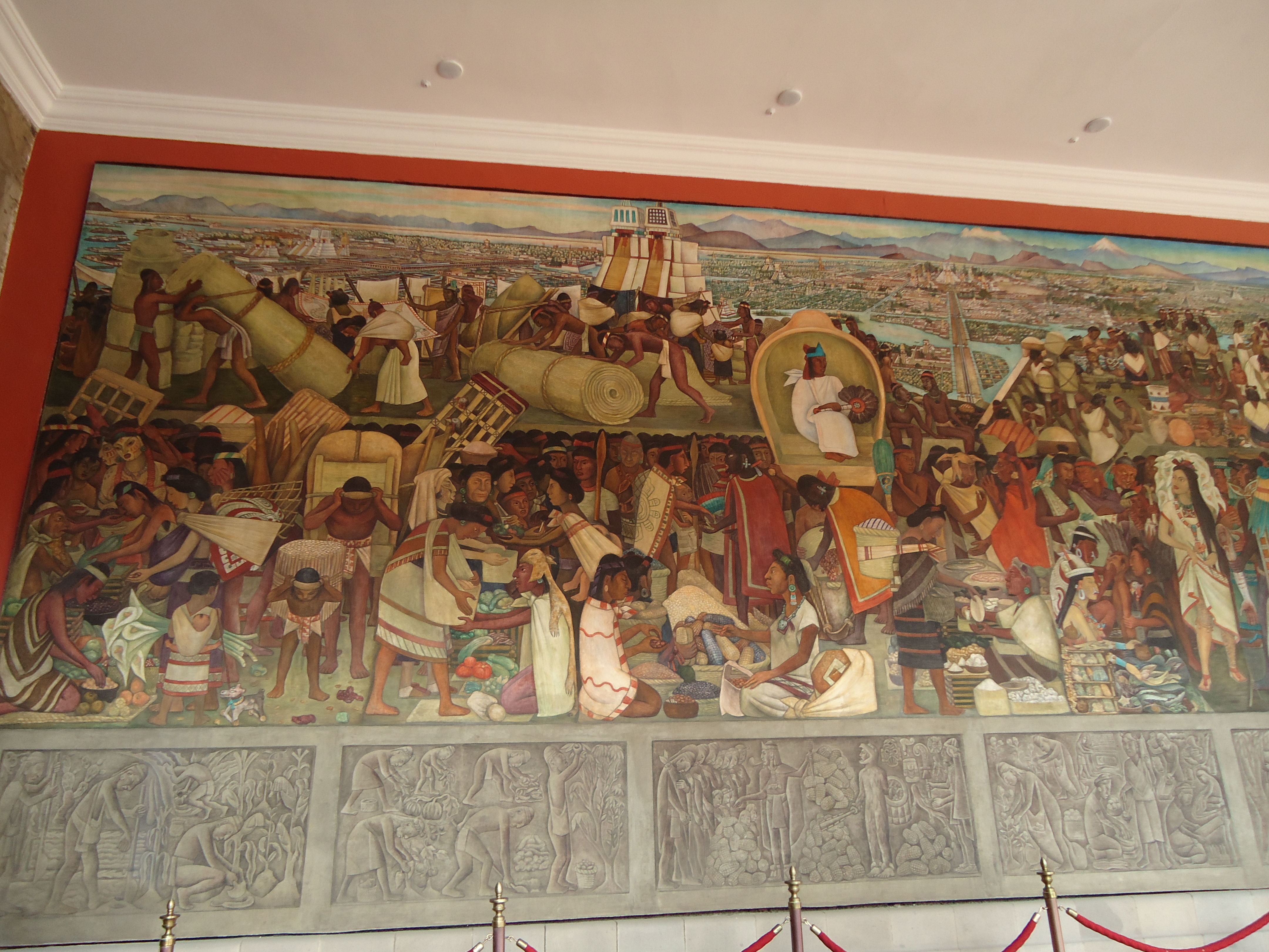 The Great Tenochtitlan by Diego Rivera in the Palacio Nacional, full view